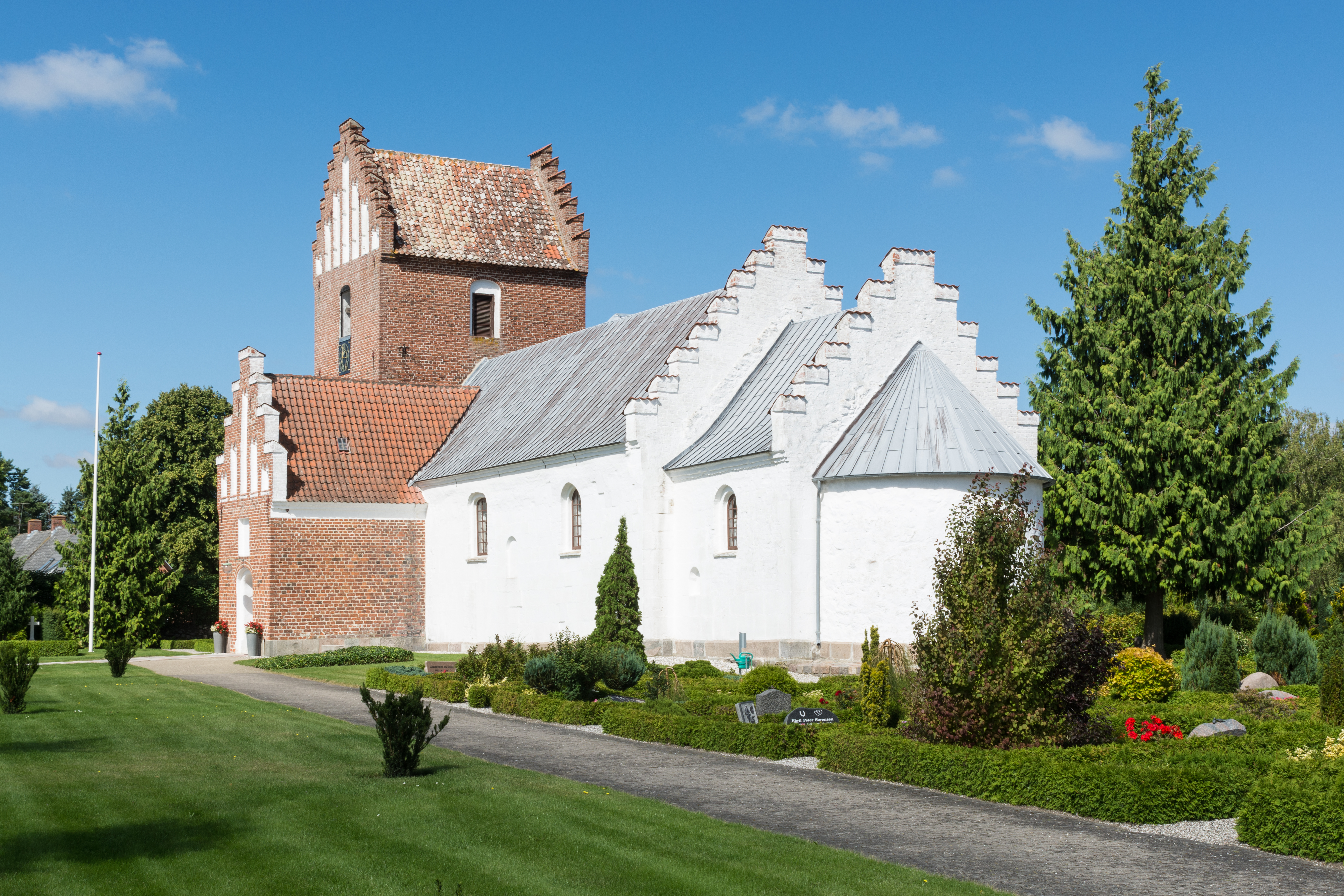 Auning church (Norddjurs Kommune).